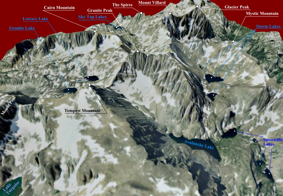 A 3D representation of Granite Peak, Montana from SRTM data provided free by NASA.